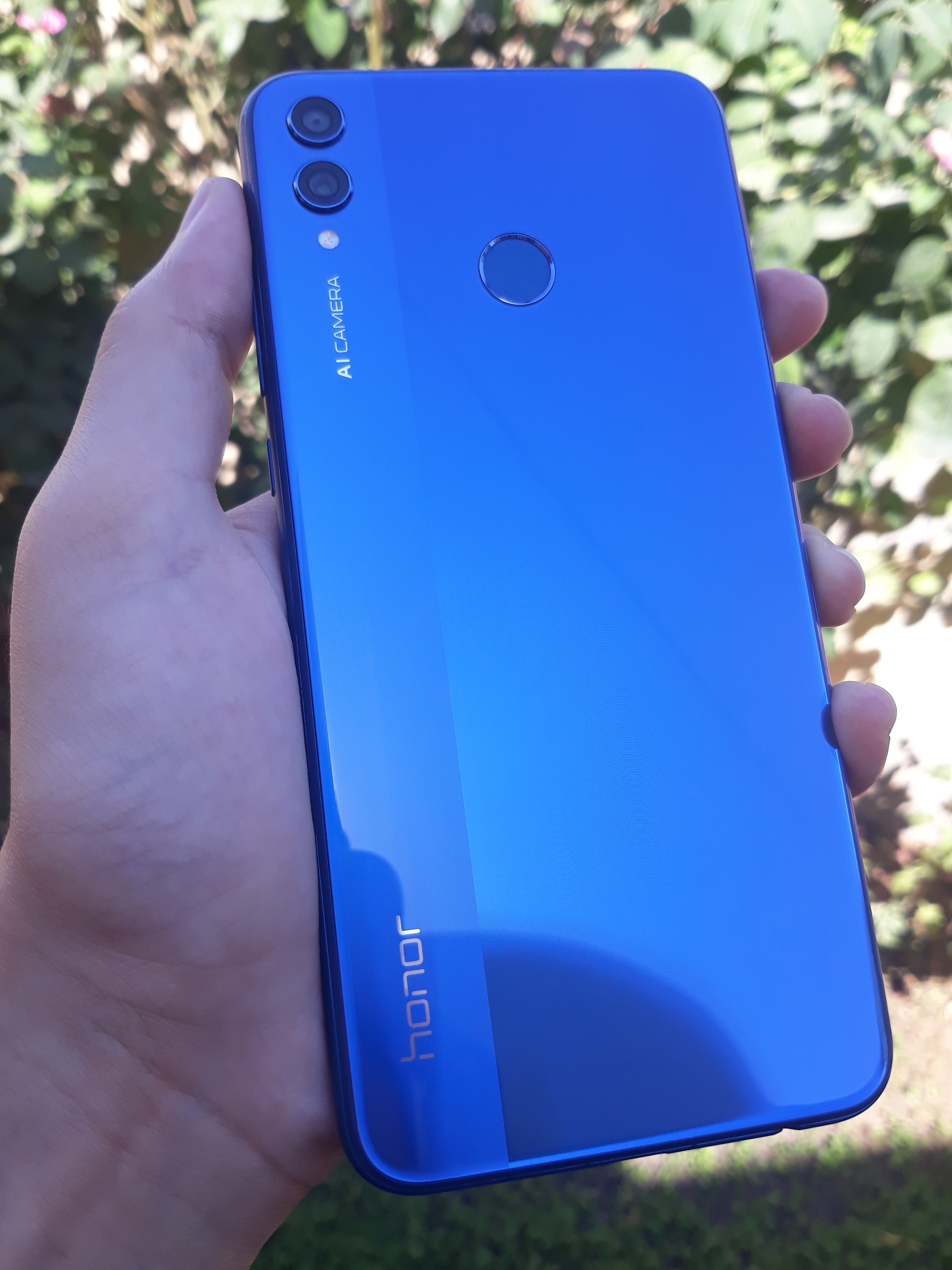 Honor 8X Huawei Honor 8X The Honor 8x is a smartphone made by Huawei under their Honor sub-brand.